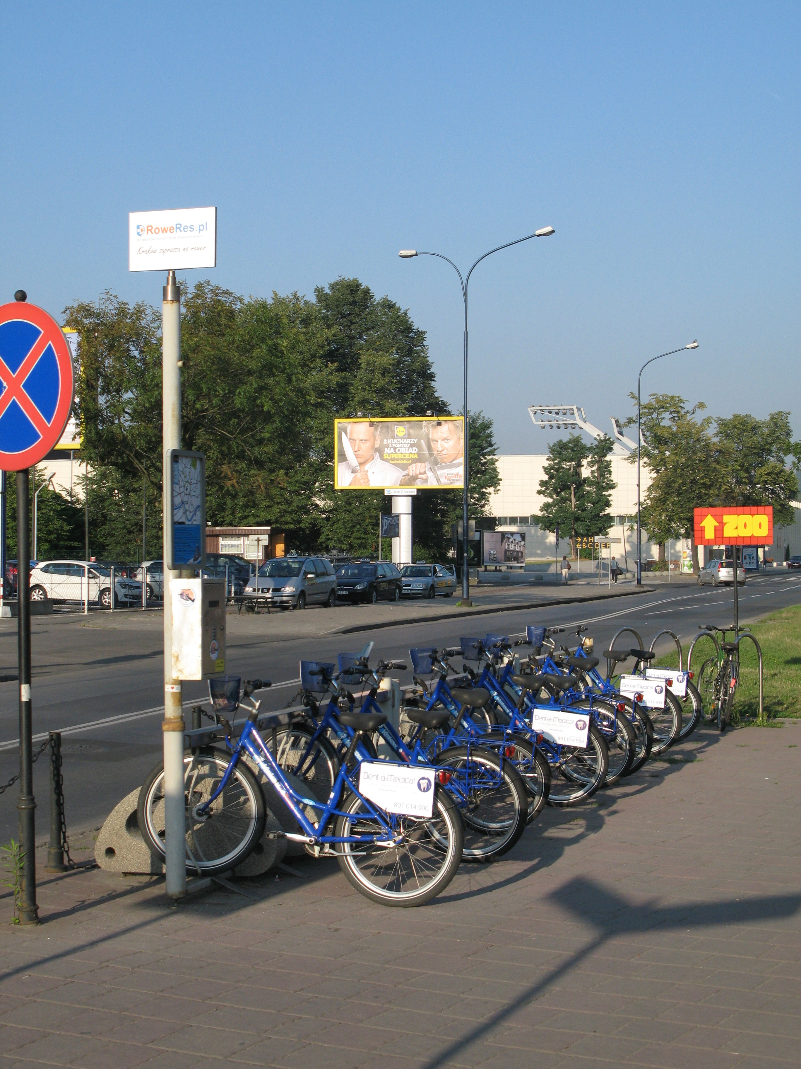 Station of bicycle sharing system in Kraków, Poland